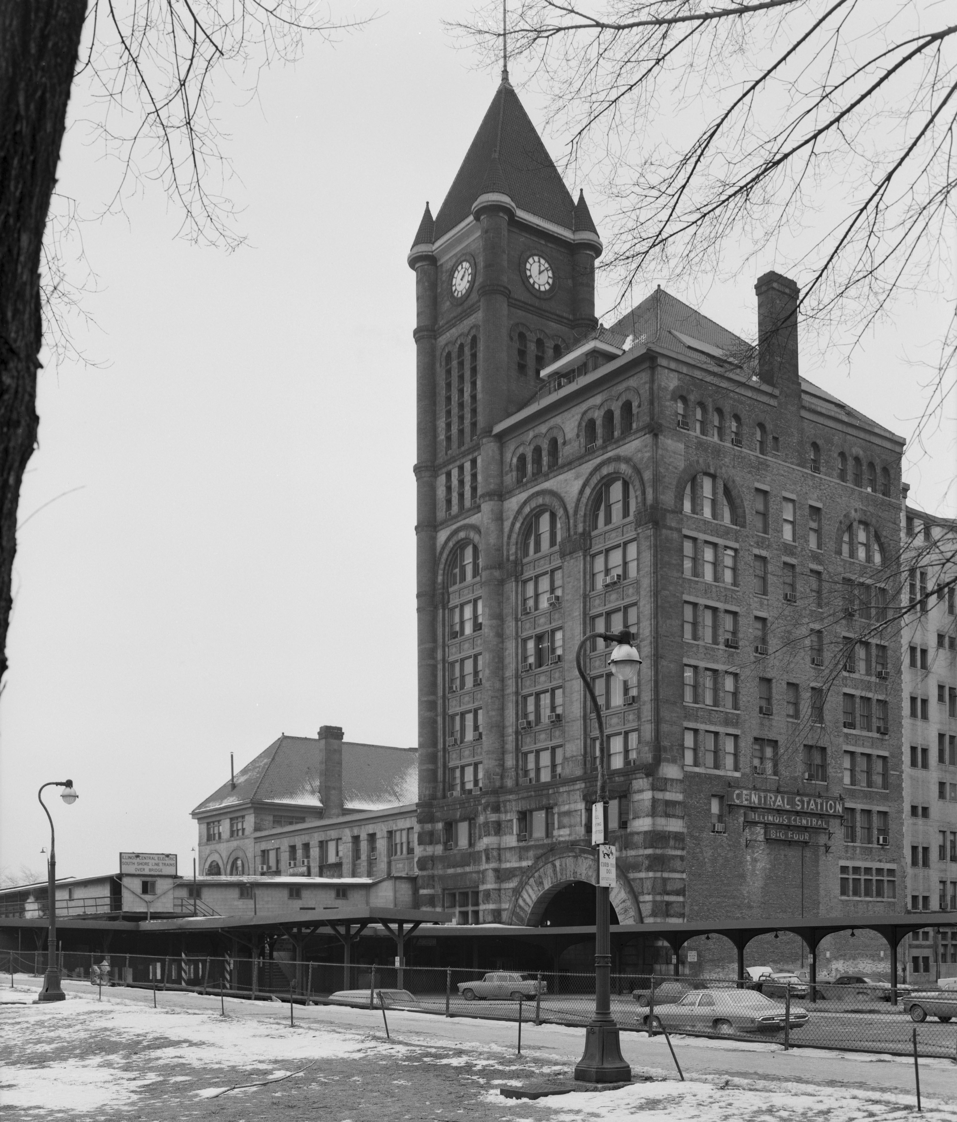 General view of north front and west side of Chicago's Central Station